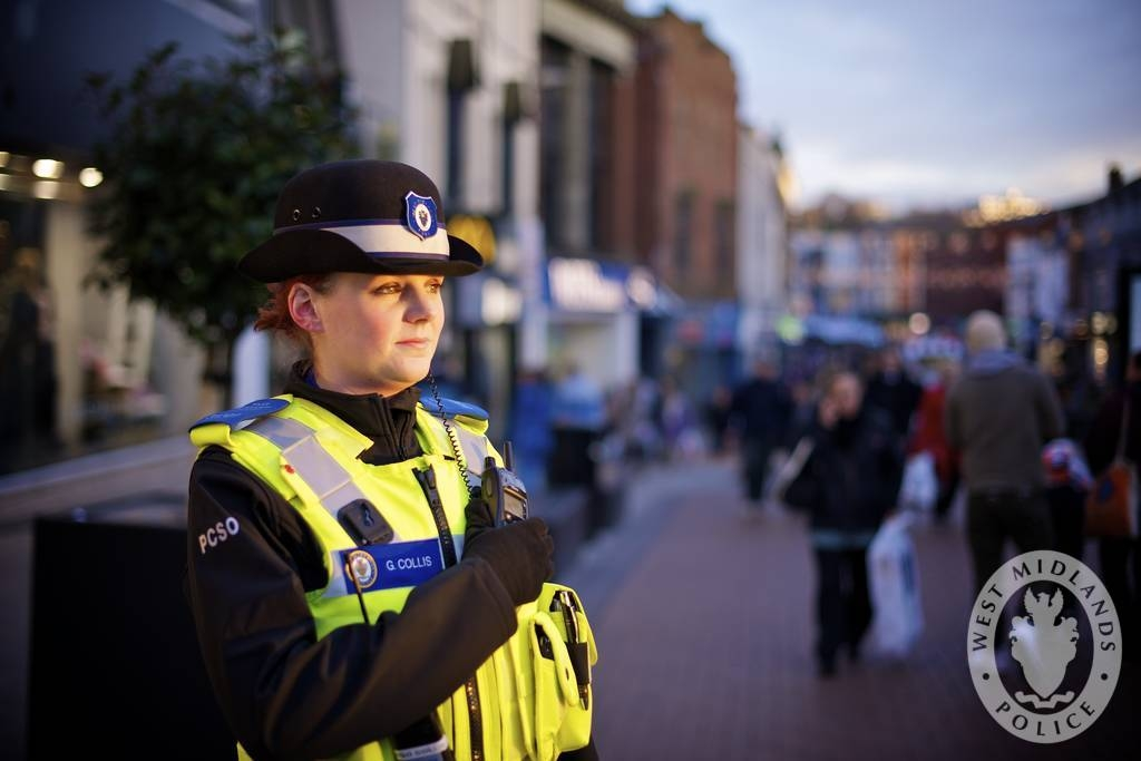 Officers are patrolling across the West Midlands to keep shoppers safe during the busy Christmas Sales.